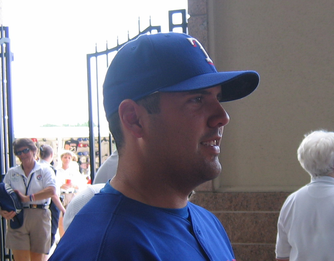 This is a picture I took of Gerald Laird myself before a Texas Rangers game on October 2, 2005. 03:04, 8 October 2007 . . Dopefish . . 1113×870 (175 KB)